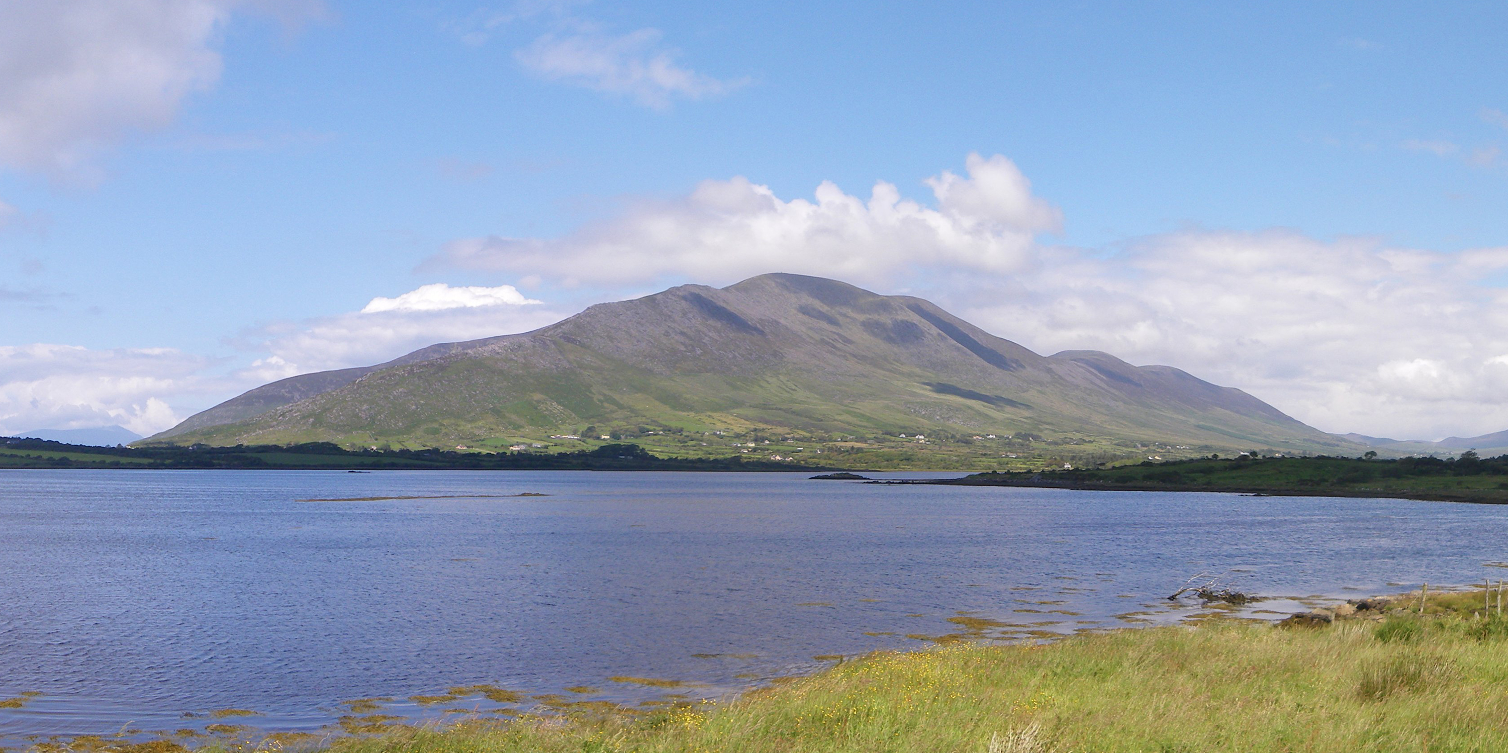 Knocknadobar is a 690 metre mountain on the Iveragh Peninsula in County Kerry in Ireland.